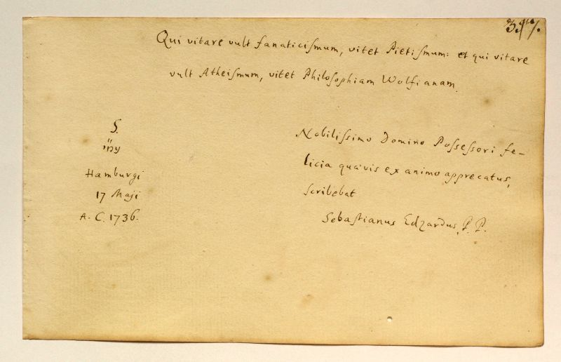 Inscription of Sebastian Edzardus in Album amicorum of Johann Friedrich Behrendt, 1736 May 17 (Edzardus died 1736 June 10!)